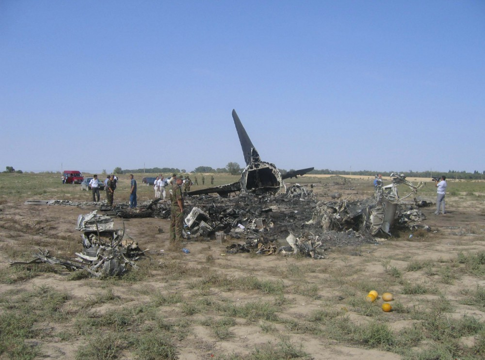 Flight 6895 struck terrain some 7.5 km from Bishkek-Manas International Airport.